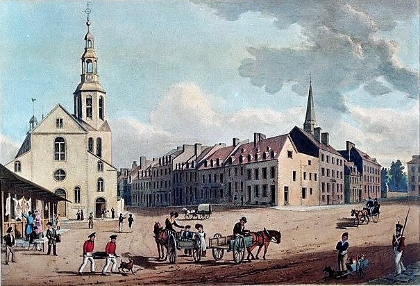 Quebec Lower Canada. View of the market place and Catholic church taken from the Barracks, Fabrique Street, 39 x 51.6 cm